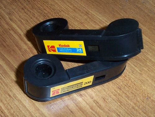 Two used 110 film cartridges containing Kodacolor VR-G 200 film. One is 24 frame, the other 12. Picture taken while evaluating equipment.